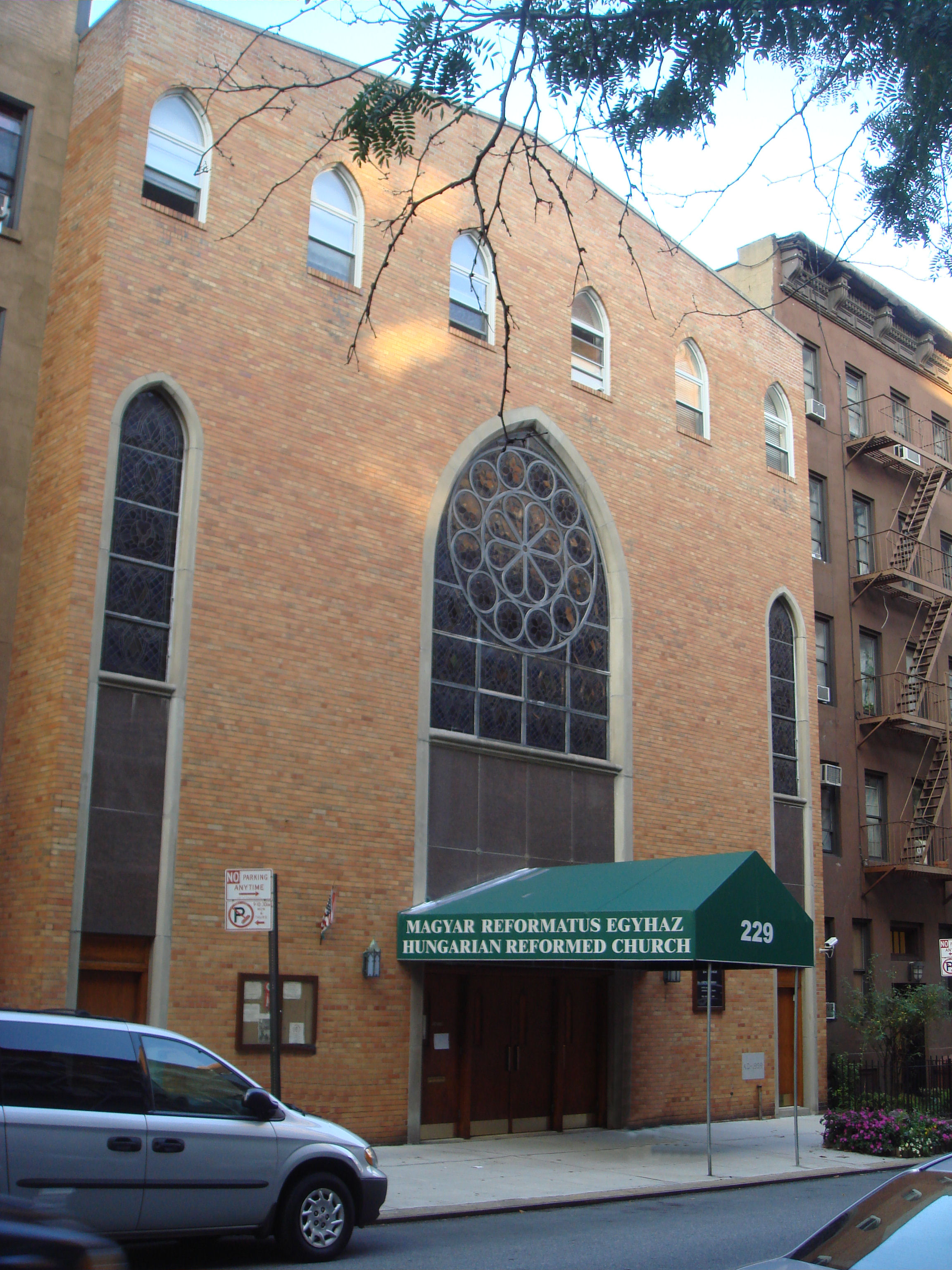 Hungarian_Reformed_Church_building, 229 East 82nd Street, in_Manhattan_New_York.